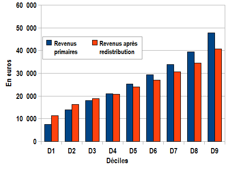 Distribution by deciles of annual household incomes in France before and after taxation and redistribution. Primary incomes do not include the payment of the "CSG" tax on work and redistribution earnings. Data from INSEE survey « Revenus Fiscaux 2004» (tableau dis 01).